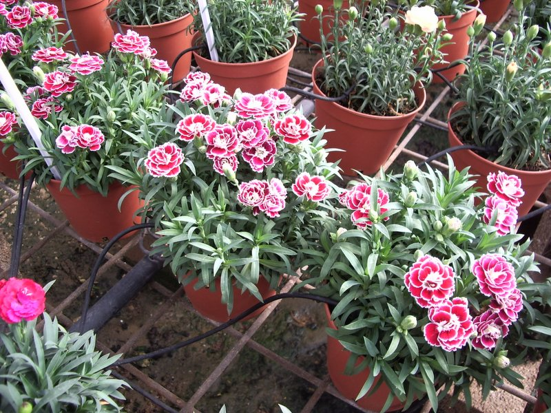 Dianthus caryophyllus, pot carnation variety from Ringel Nursery, Israel Autor: Martin Fischer, Sommer 2005